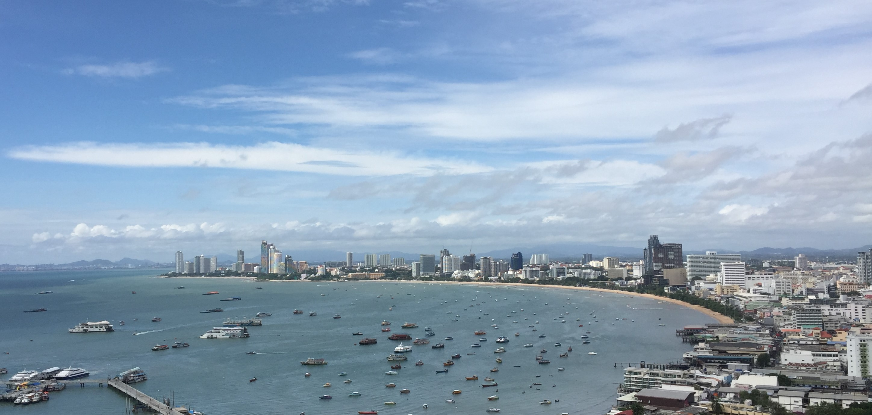 Pattaya beach, Chonburi, Thailand